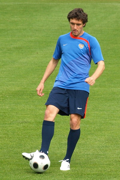 Yuri Zhirkov on an open training of the Russia national football team in Leogang, June 12, 2008.